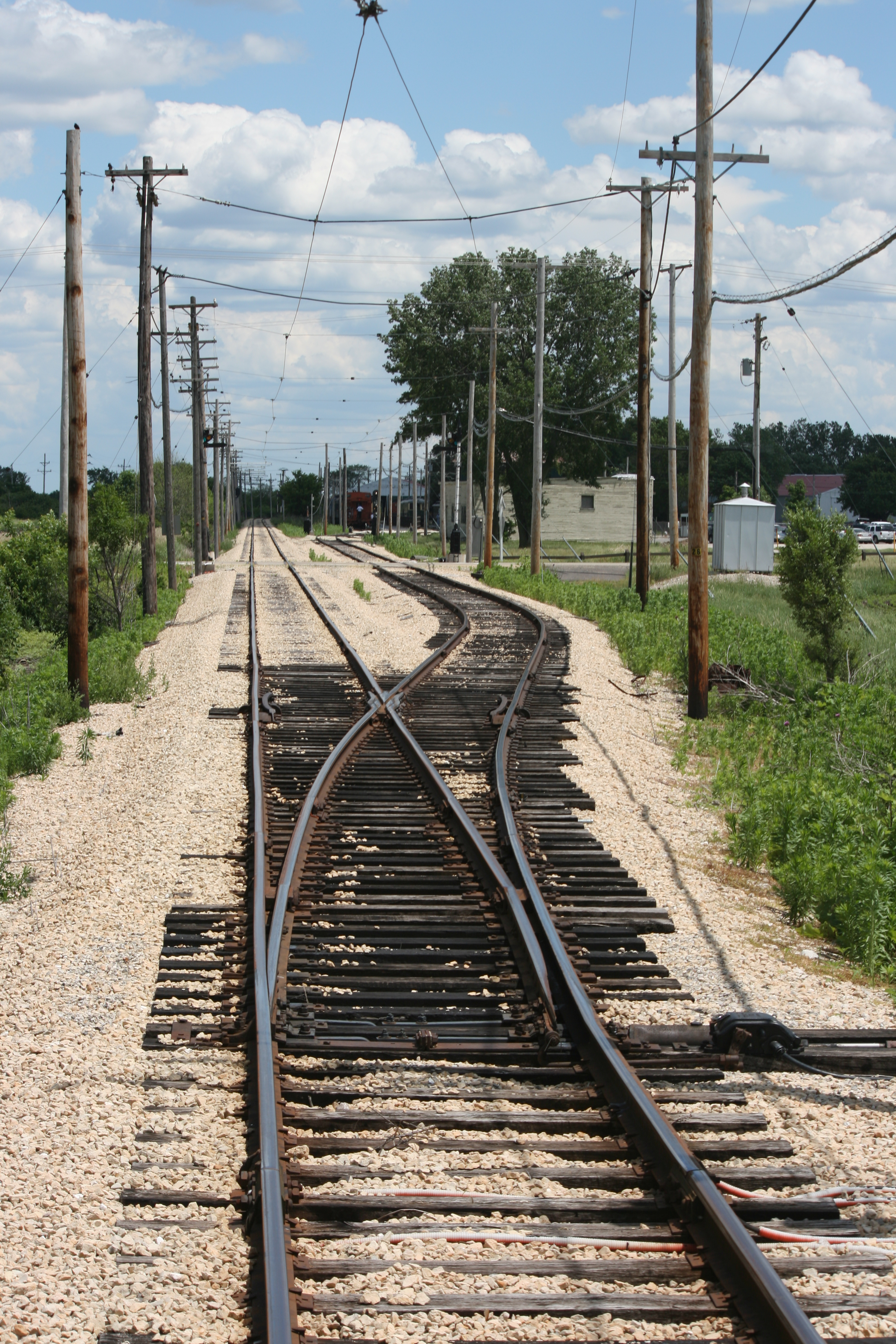 Railroad Switch Illinois Railway Museum